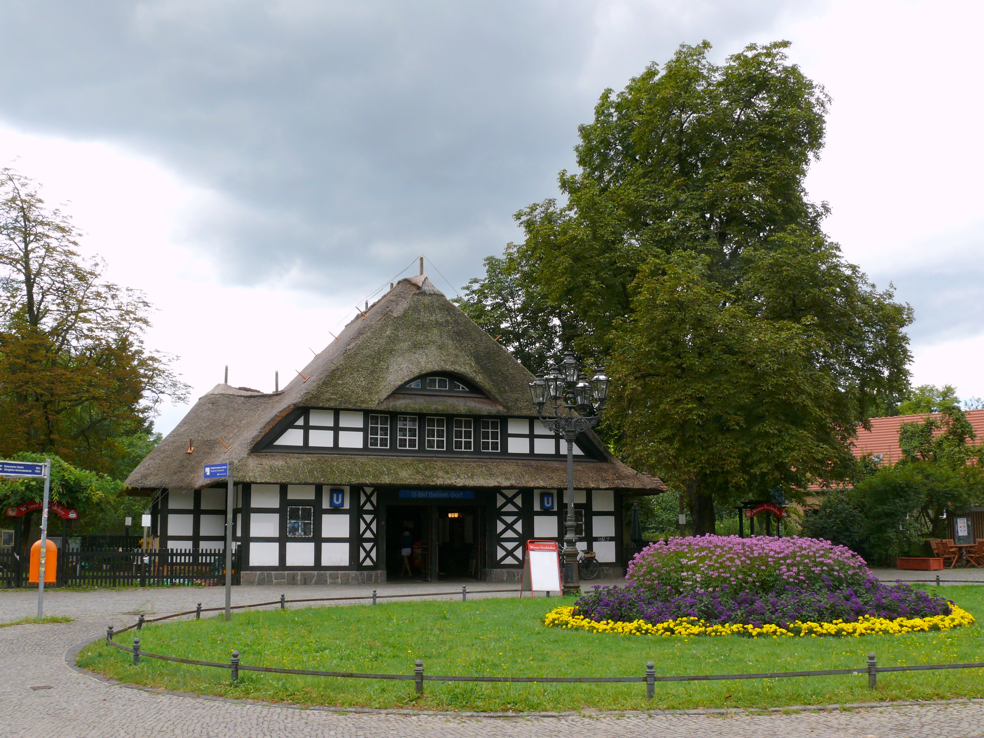 Berlin-Dahlem Königin-Luise-Straße U-Bahnhof Dahlem-Dorf